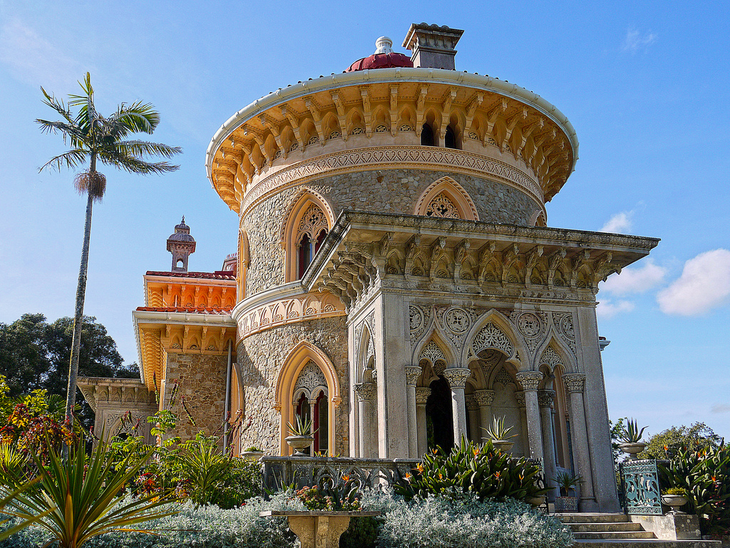 Monserrate is a romantic neo-gothic palace with Moorish inspired details. It is located on a hill near Sintra, Portugal and was originally the site of a 16th century Chapel which was destroyed in the 1755 earthquake. The present palace was built in 1858 for Sir Francis Cook, Viscount of Monserate, and was used as a summer residence. The design of the gardens took advantage of the unique microclimates of the mountain to produce a magnificent park in which over 3,000 exotic species can still be seen today.